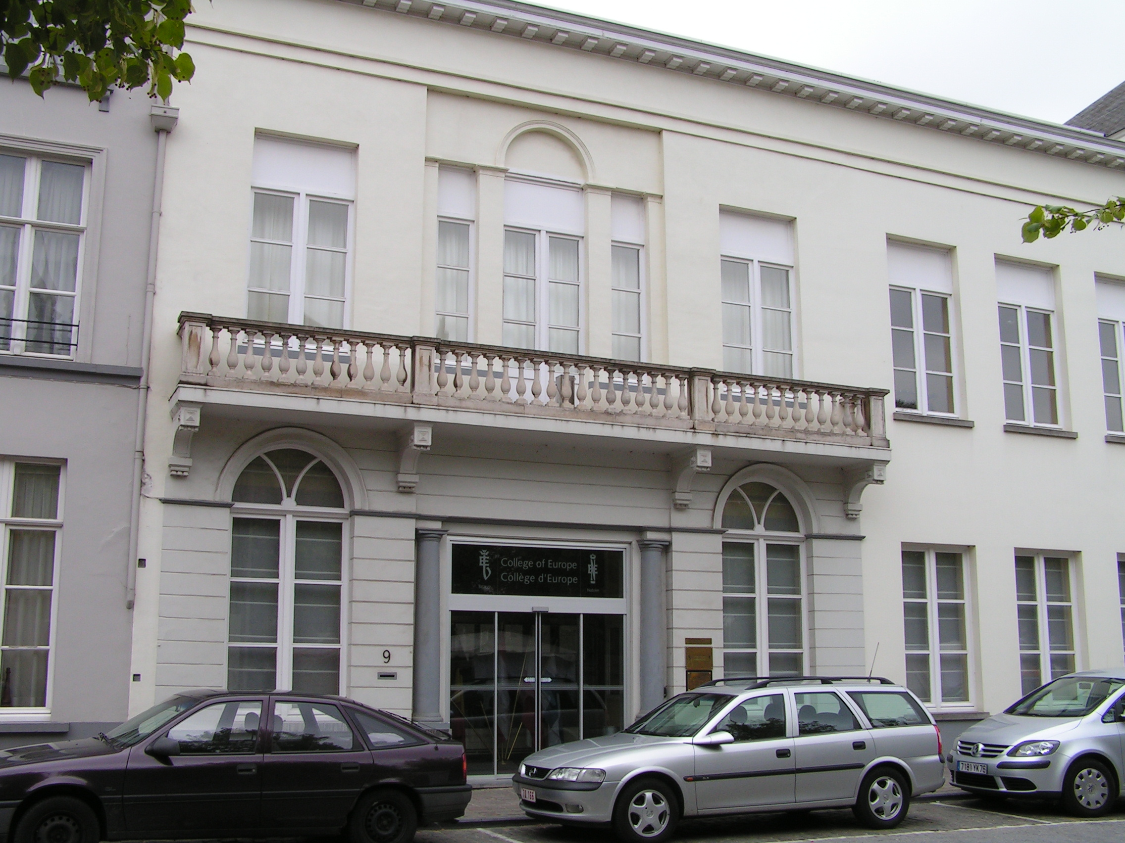 Europakolleg Campus Brügge, Belgien (original description from German Wikipedia)